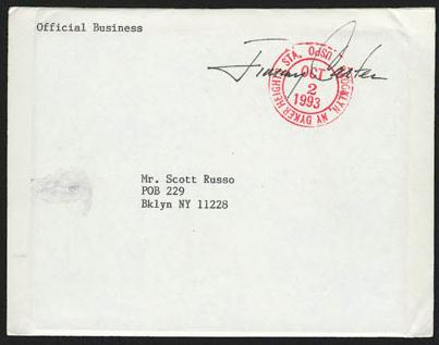 President Jimmy Carter 1993 free frank.